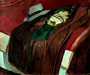 Still Life with Coat